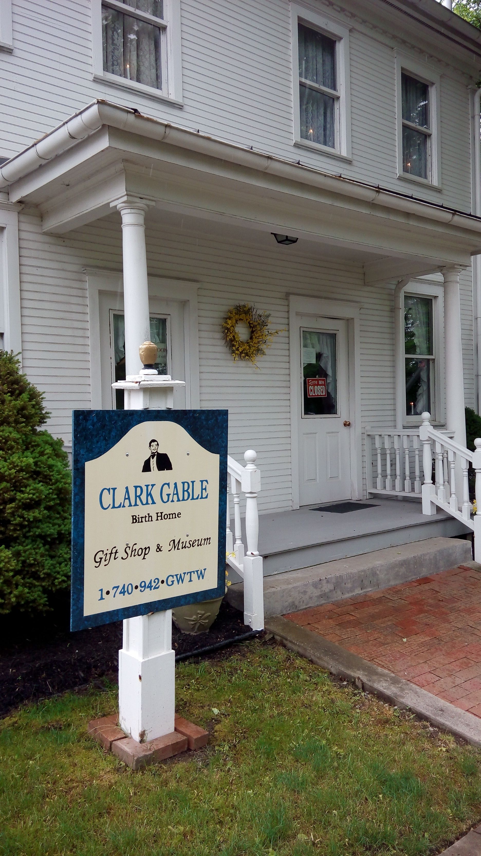 Birthplace of Clark Gable, photoed in Cadiz, Ohio in June of 2016